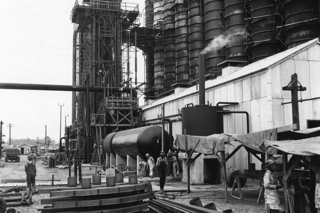 SYLACAUGA, AL - JULY 17, 1943: Alabama Ordnance Works Photo by U.S. Corps of Engineers, Manhhattan Engineering District/Courtesy National Archives, photo no. MED 38-4